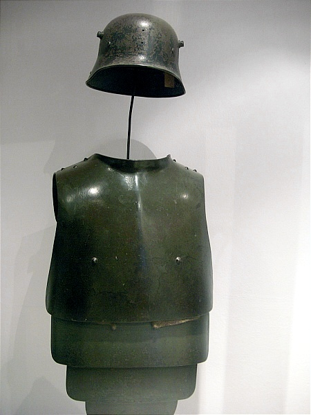 made during a summer day in the Museum of the Polish Army in Warsaw German WWI Stahlhelm and a prototype anti-shrapnel armour